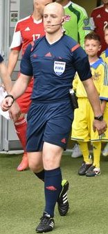 Ukraine vs Luxembourg 14062015 UEFA EURO 2016 Qualifying round - Group C Referees: Arnold Hunter (NIR), Richard Storey (NIR), Gareth Eakin (NIR), Stephen Bell (NIR), Raymond Crangle (NIR), Mervyn Smyth (NIR)